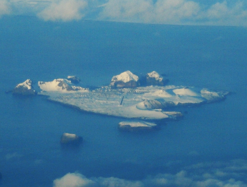 Aerial view of Heimaey Island, its town, its X-shaped airport, and the two volcanoes Helgafell and Eldfell.